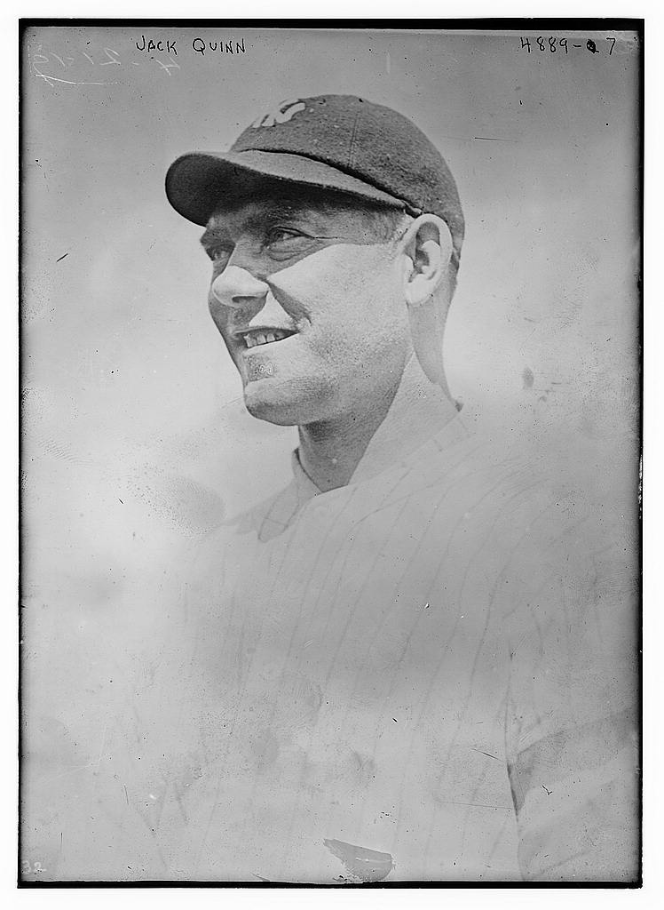 Jack Quinn in 1919 as a pitcher for the New York Highlanders.